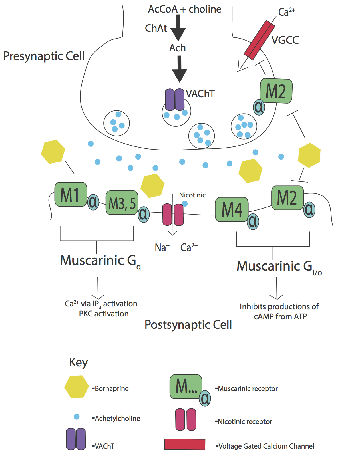 Pathway of anticholinergic drug, bornaprine.